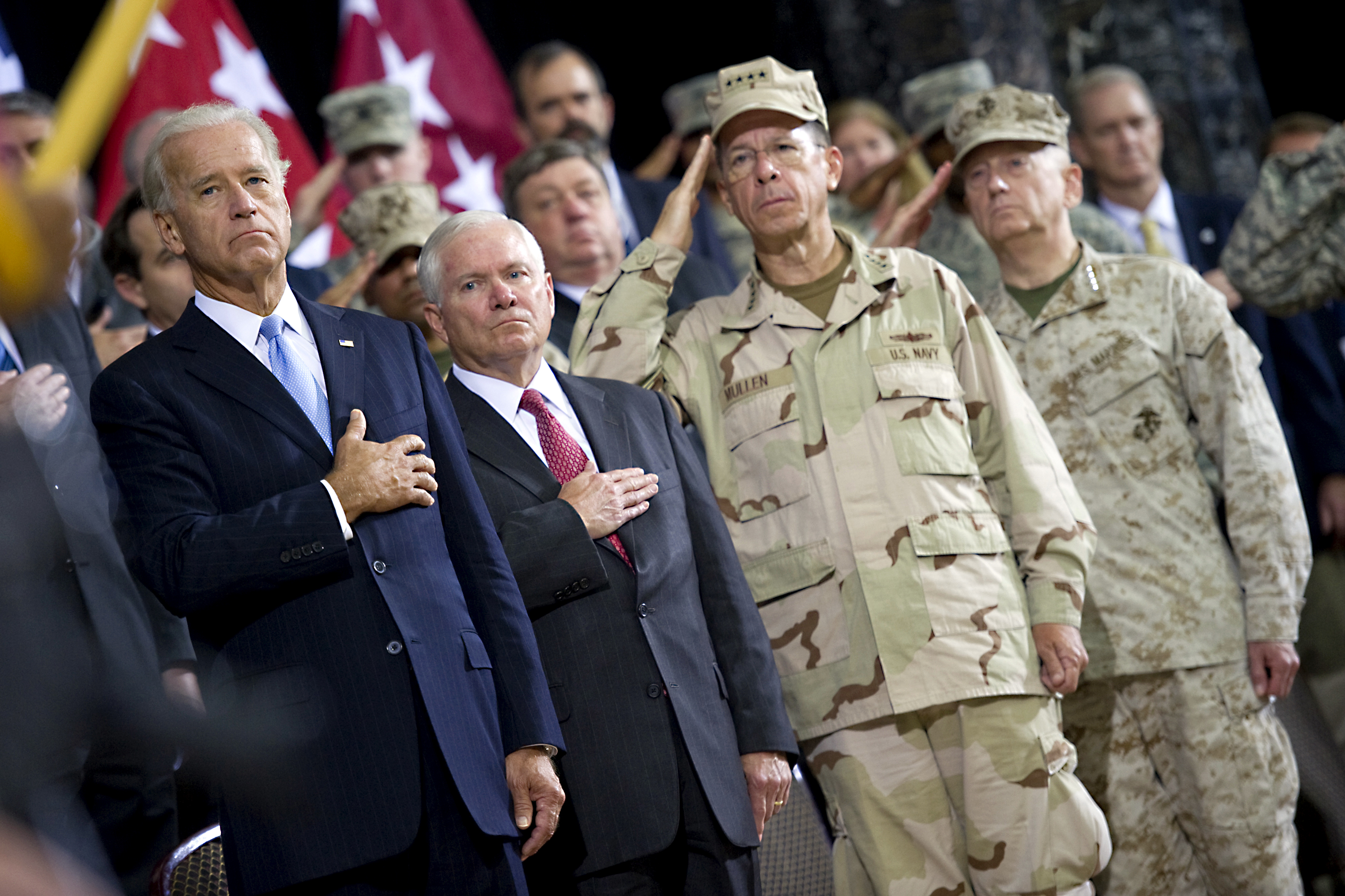 U.S. Vice President Joe Biden, U.S. Defense Secretary Robert M. Gates, U.S. Navy Adm. Mike Mullen, chairman of the Joint Chiefs of Staff, and U.S. Marine Gen. James N. Mattis, commander, U.S. Central Command, salute during the presentation of colors at the change-of-command ceremony for U.S. Forces Iraq in Baghdad, Sept. 1, 2010. U.S. Army Gen. Lloyd J. Austin III relieved U.S. Army Gen. Raymond T. Odierno.